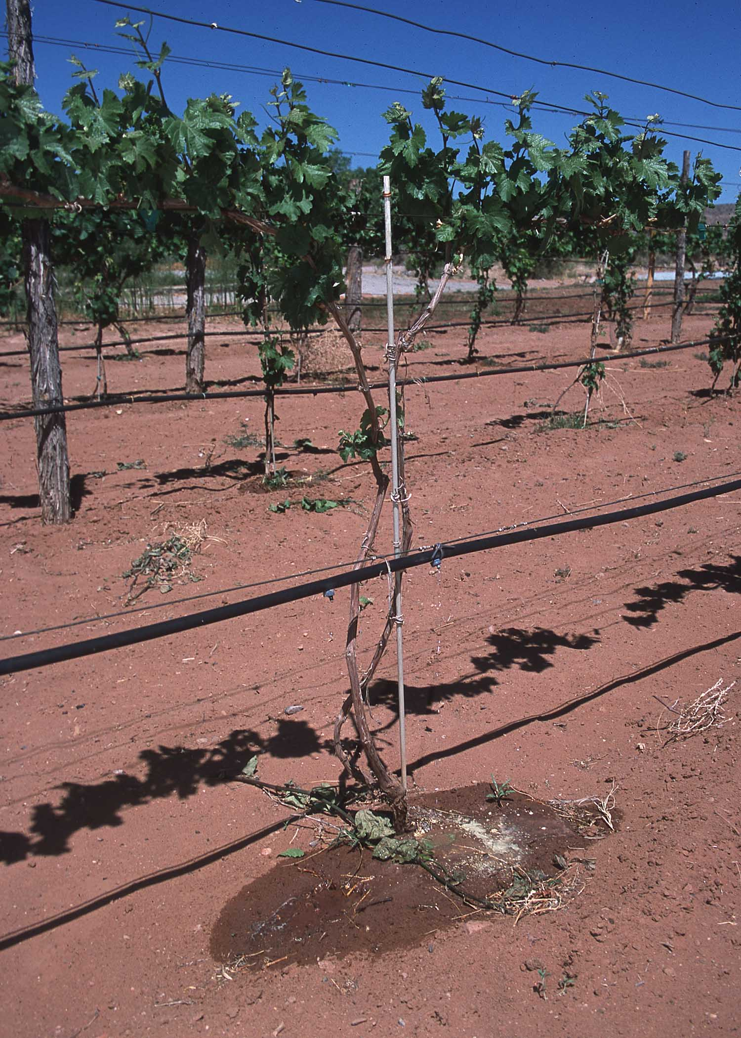 Drip irrigation used on vineyards in Rio Arriba County, New Mexico. 2002. Photo by Jeff Vanuga, USDA Natural Resources Conservation Service.